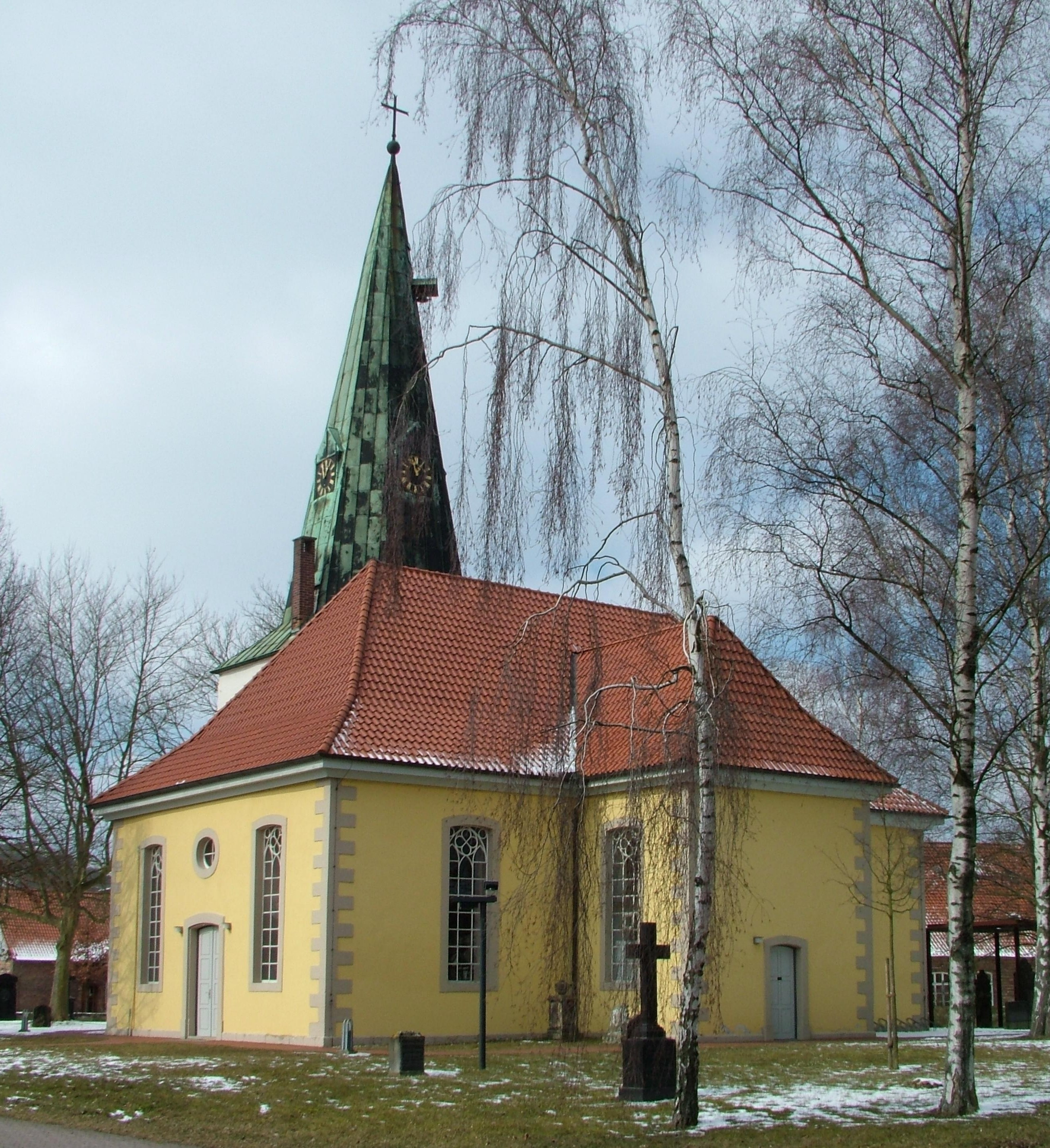 the Lutheran church in Sehnde near Hannover, Germany